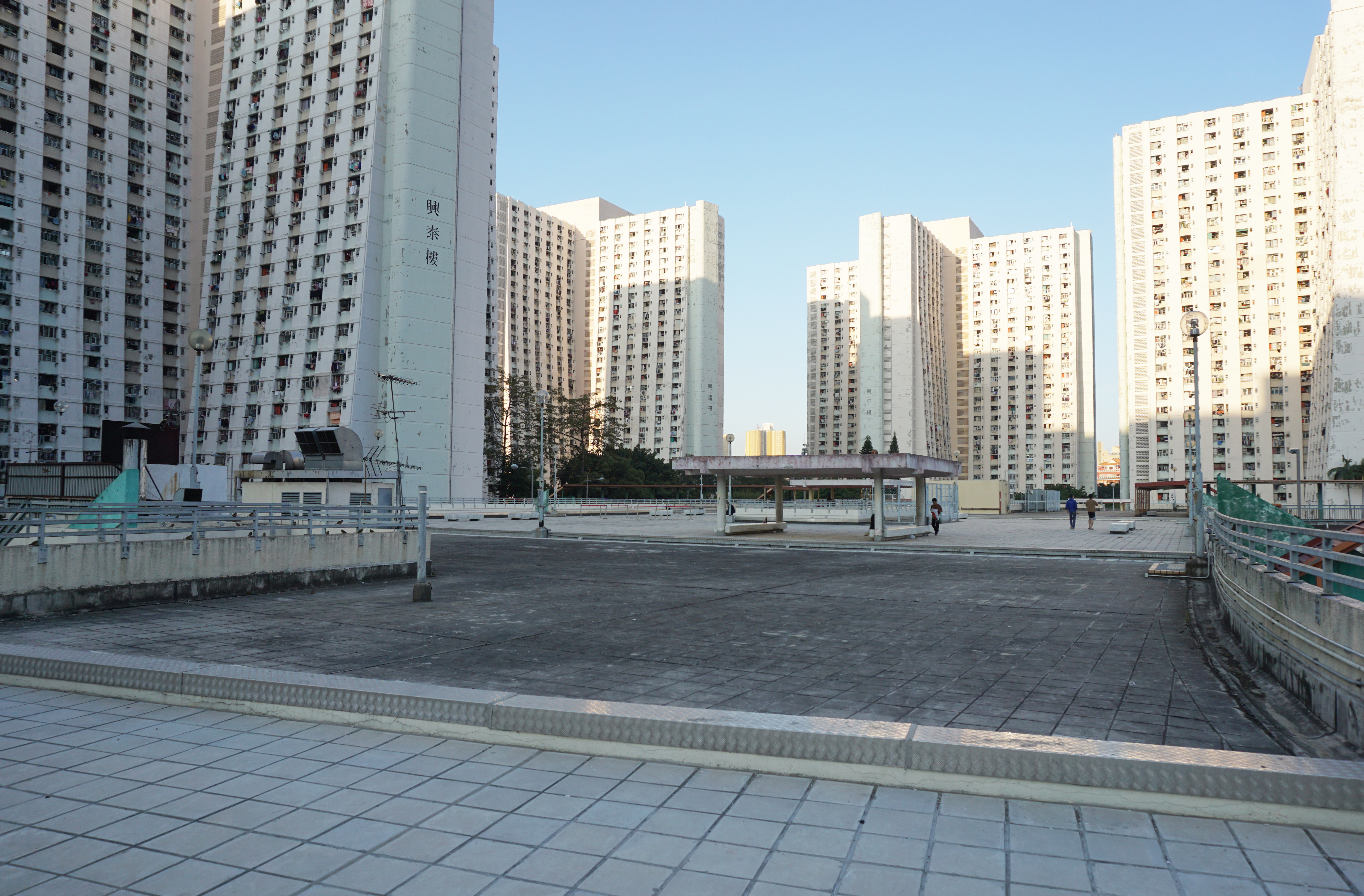 Tai Hing Commercial Centre in Tuen Mun, Hong Kong.